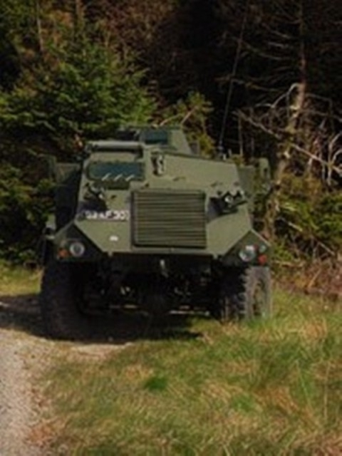 Saxon armoured vehicle, Spadeadam Forest One of many such vehicles along this track near the edge of RAF Spadeadam.